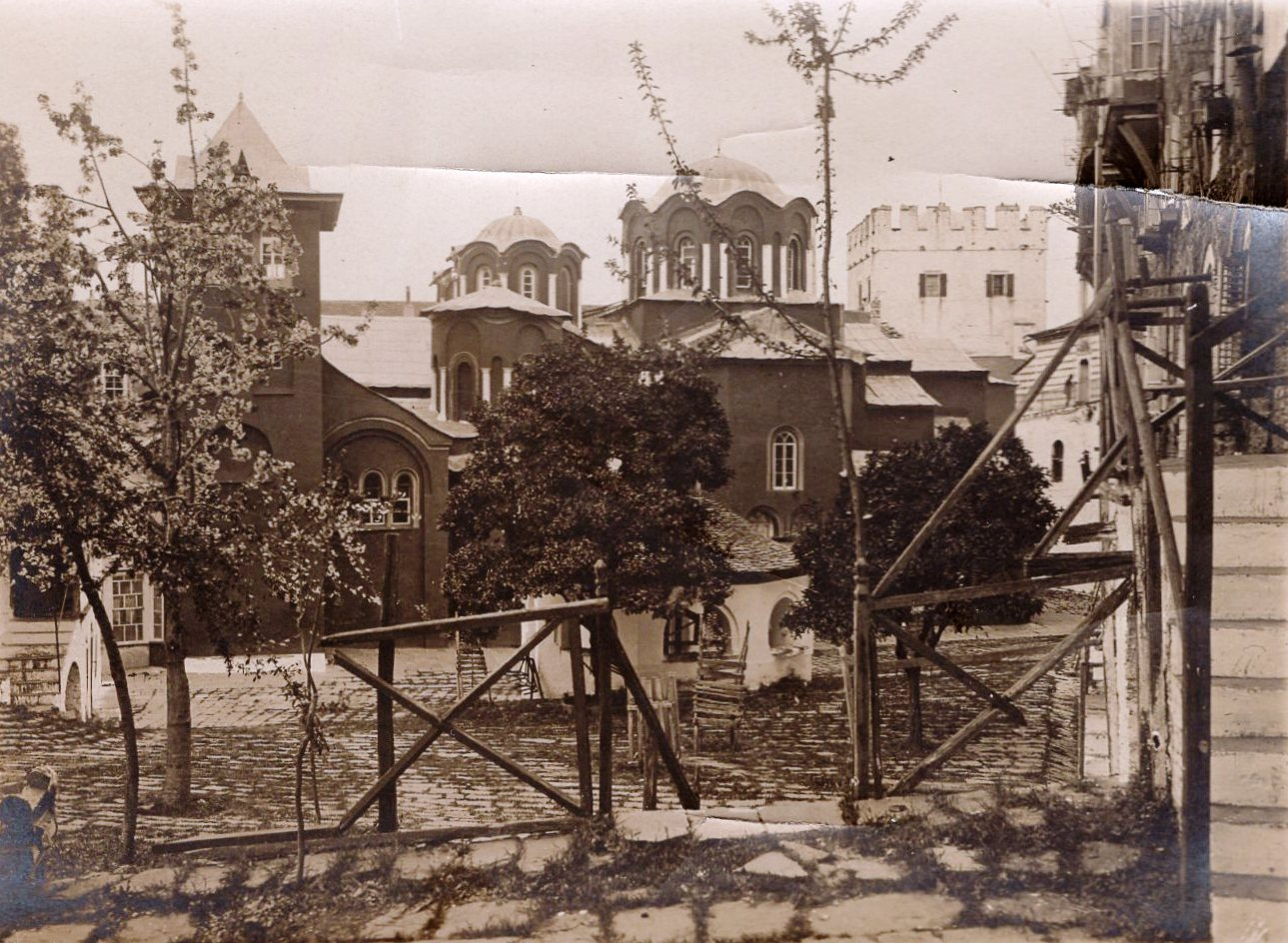 Vatopedi monastery on Mount Athos. Photographed in 1915-1916 This media file is produced by Wikipedian in Residence in Category:Wikipedian in Residence at DARM in 2016.